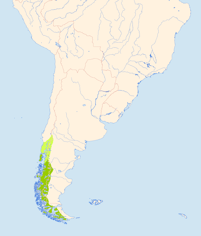 Magellanic Woodpecker Distribution